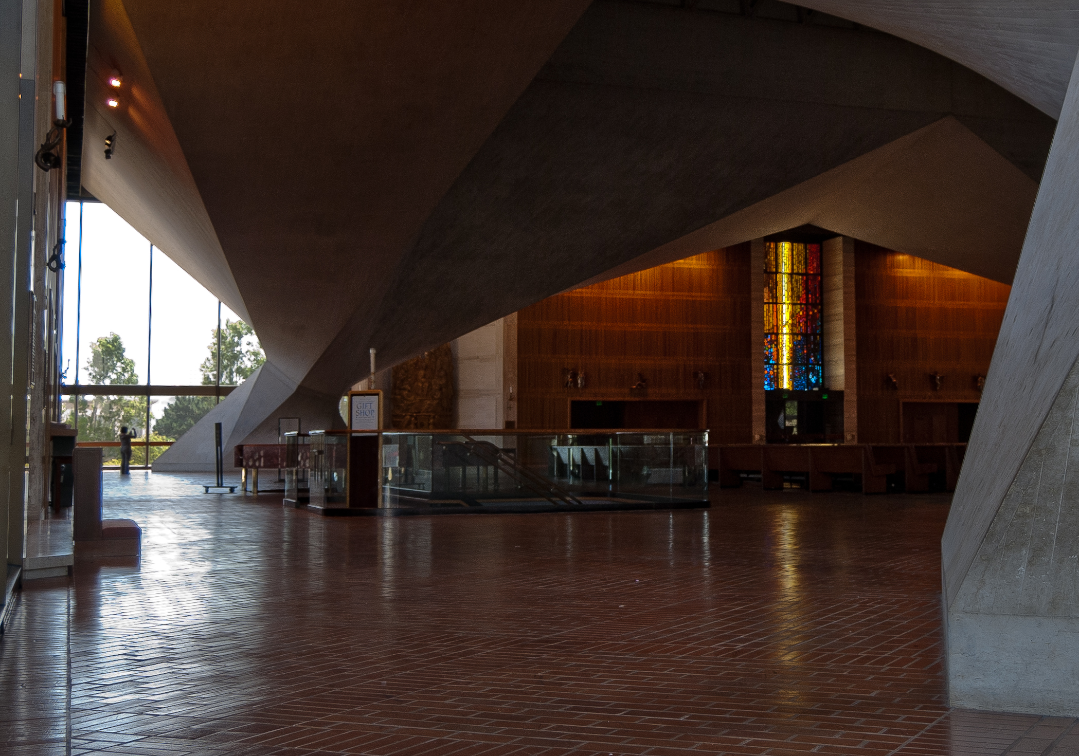 Interior of The Cathedral of St. Mary of the Assumption in San Francisco, CA.